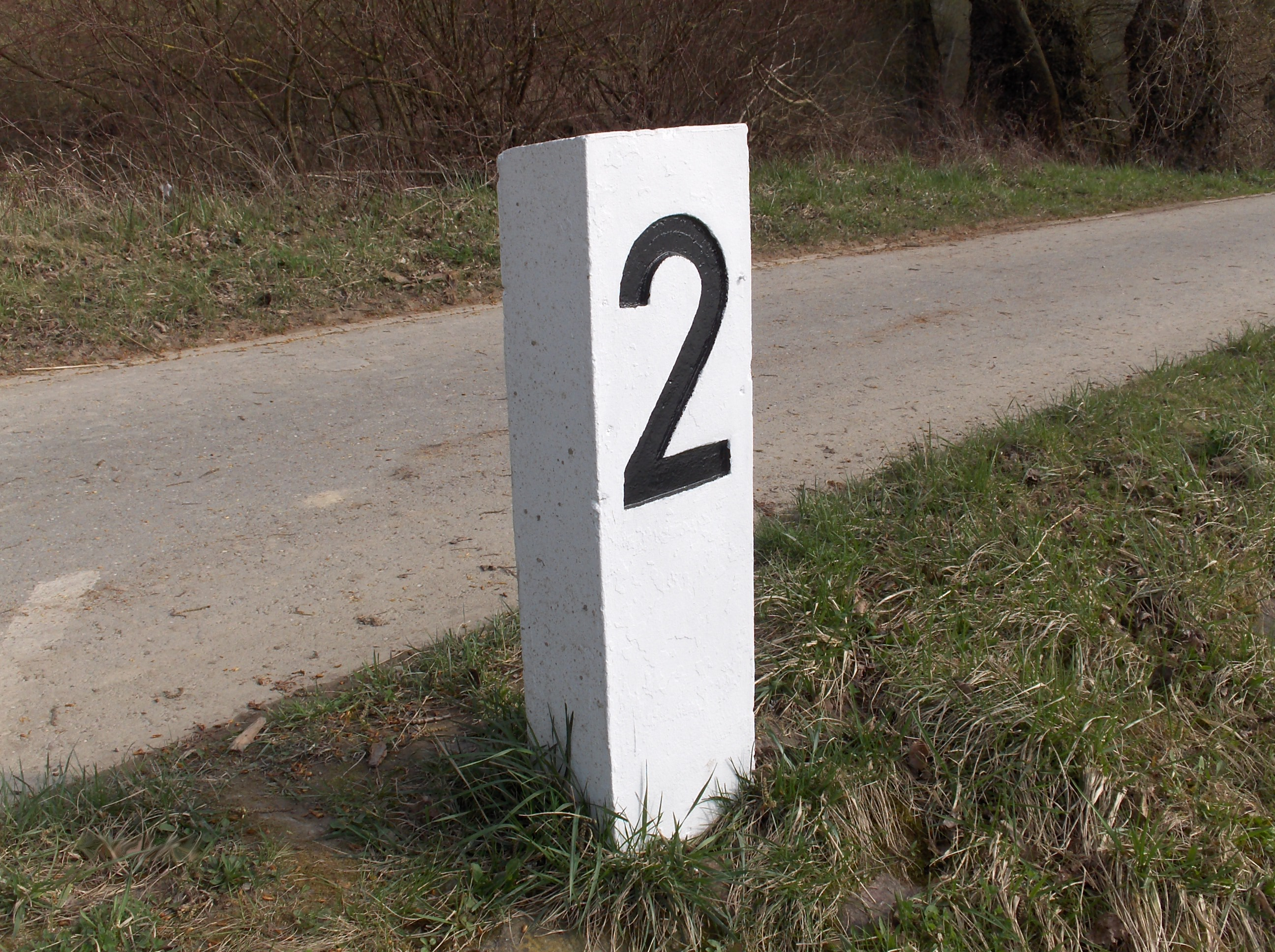 Hundred-meter-mark at the river Rhine, near Karlsruhe/Germany